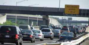 photo taken from another wikipedia article and cropped